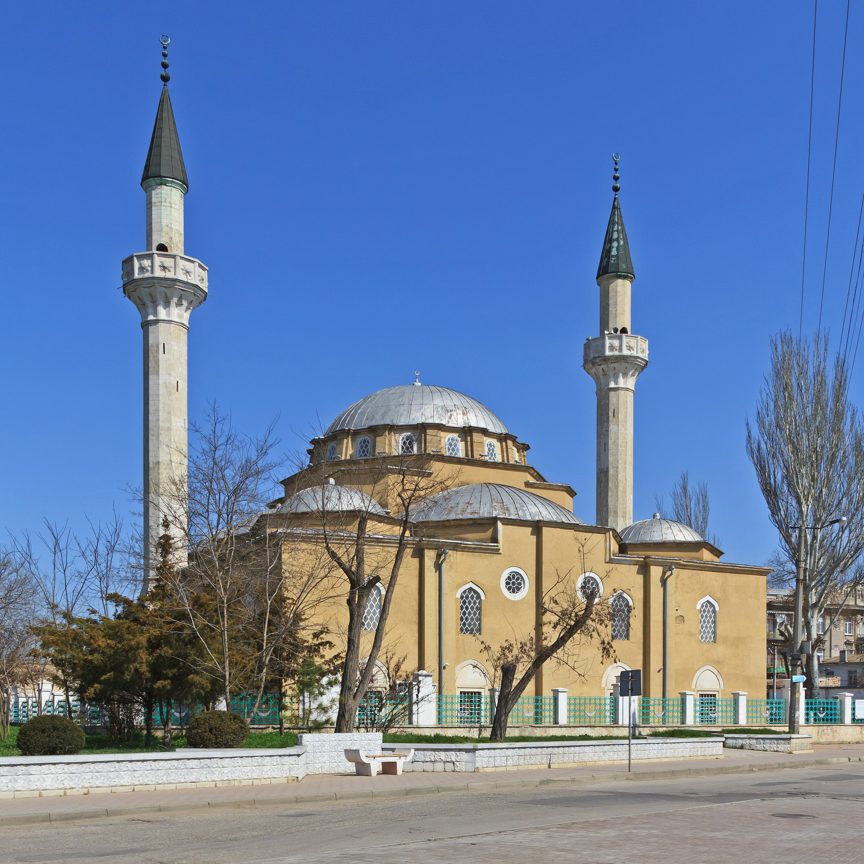 The Juma Jami Mosque in Eupatoria, Crimean Peninsula.